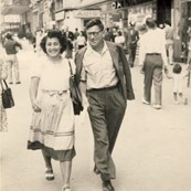 Shmaria Zameret and Neomi Kenet